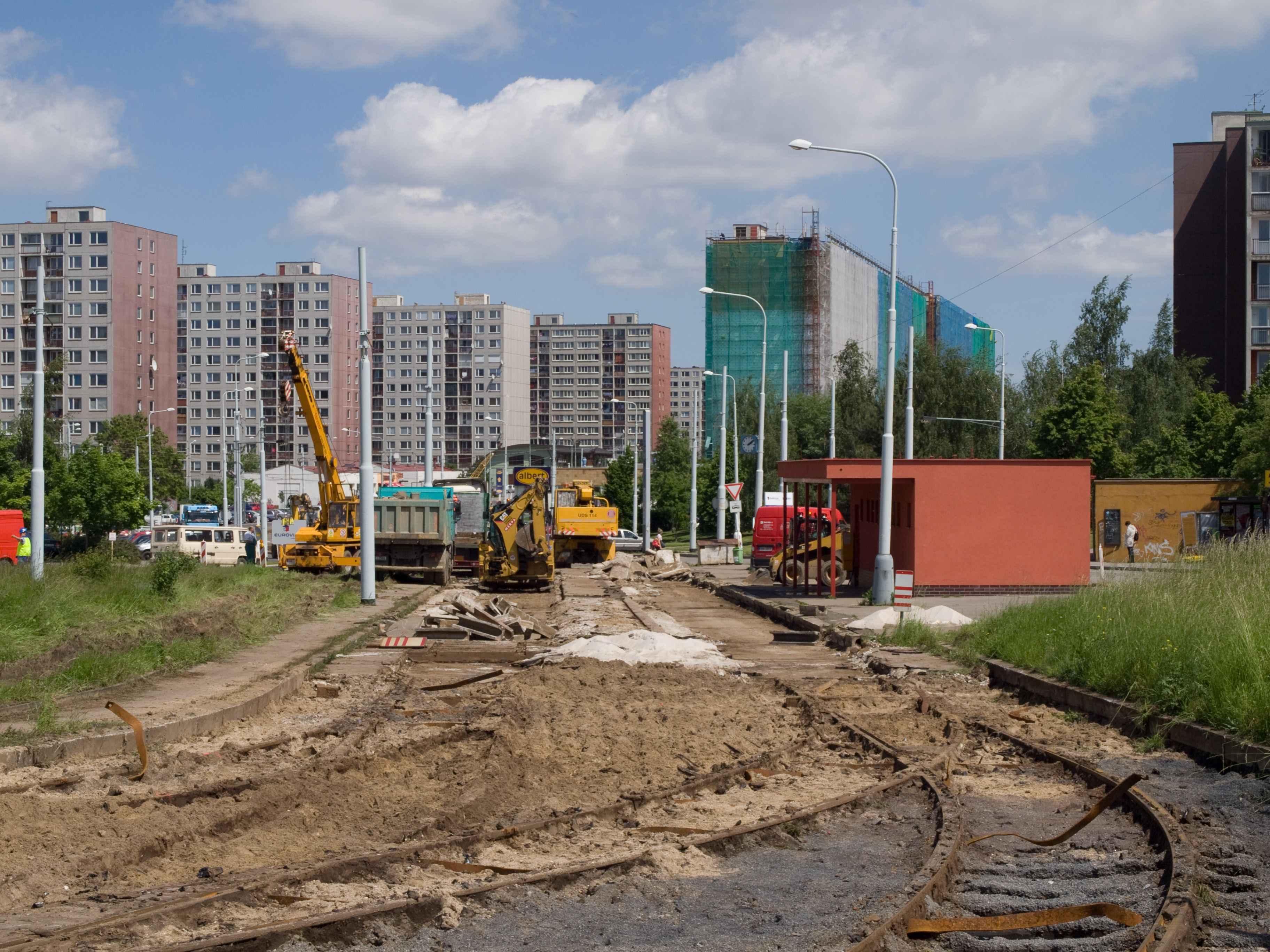 Sídliště Řepy tram loop, reconstruction of tram track Kotlářka – Sídliště Řepy, Prague